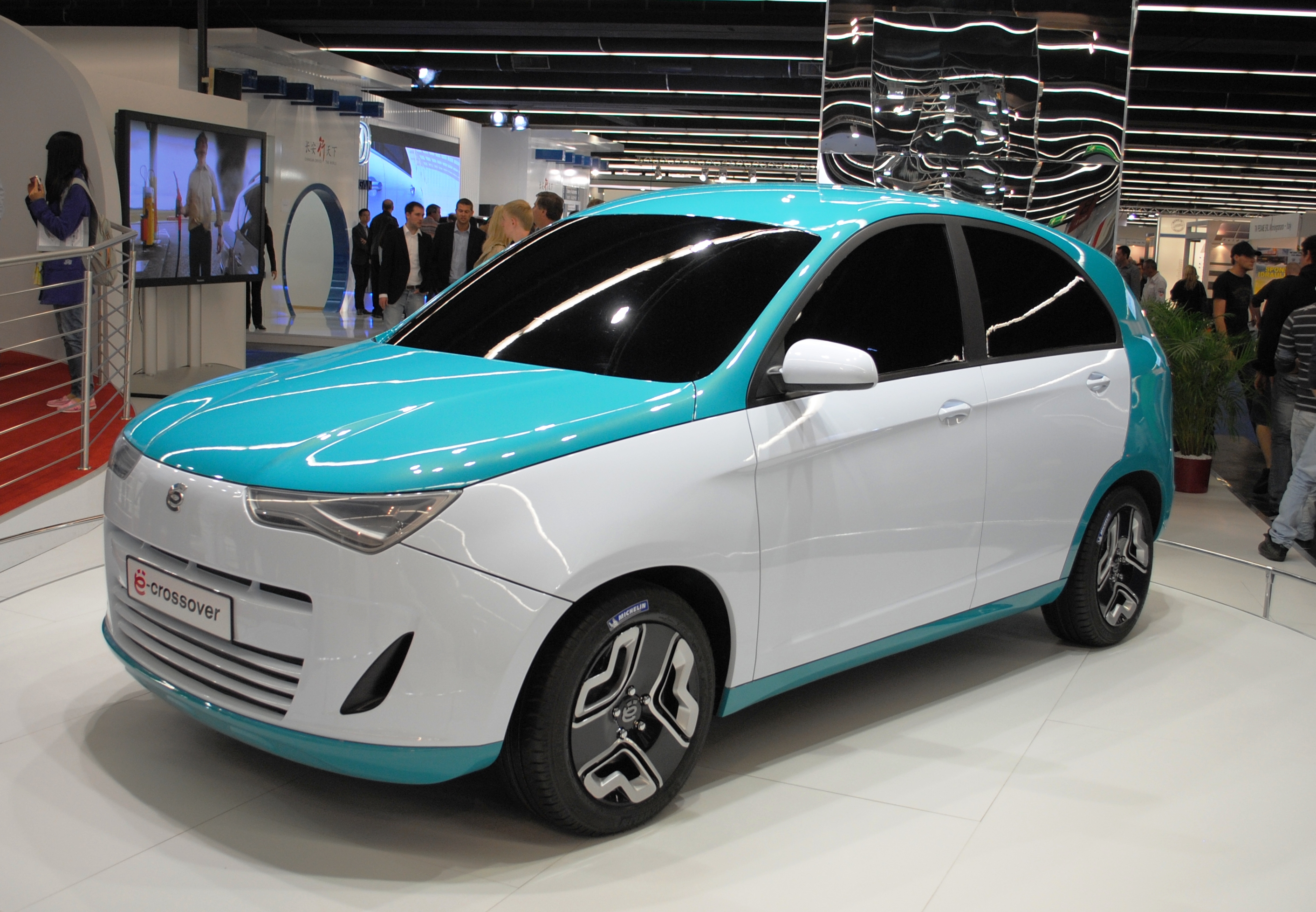 Yo-mobil crossover in Frankfurt, Germany. IAA 2011.